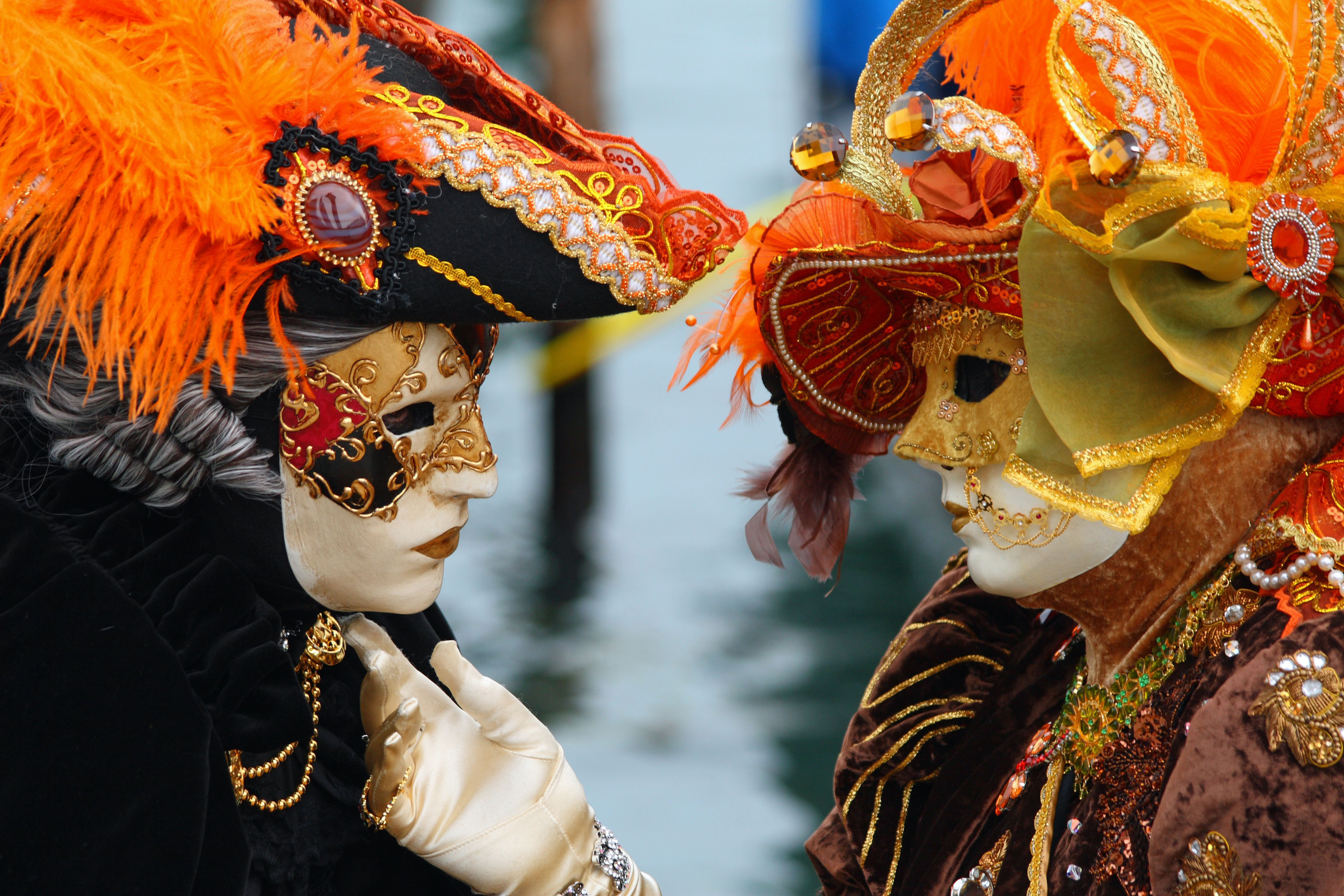 I took these photos at the 2010 Carnevale in Venice in early February 2010. This is the second set of photos since the first one was getting way too big. For the most part I just wandered around the piazza looking for different characters with elaborate and creative costumes and masks - and they were everywhere - it was such fun shooting with these people - most of whom were so good to shot with. Enjoy.